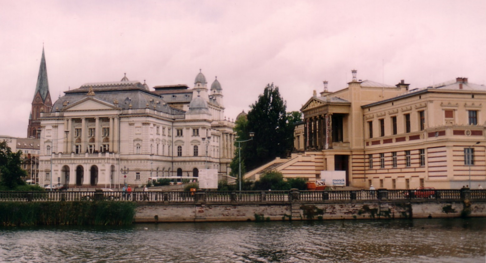 Schweriner Dom, Mecklenburgisches Staatstheater and Staatliches Museum